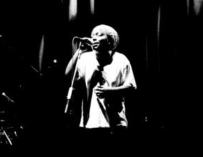 Meshell Ndegeocello performing in Washington, D.C., United States